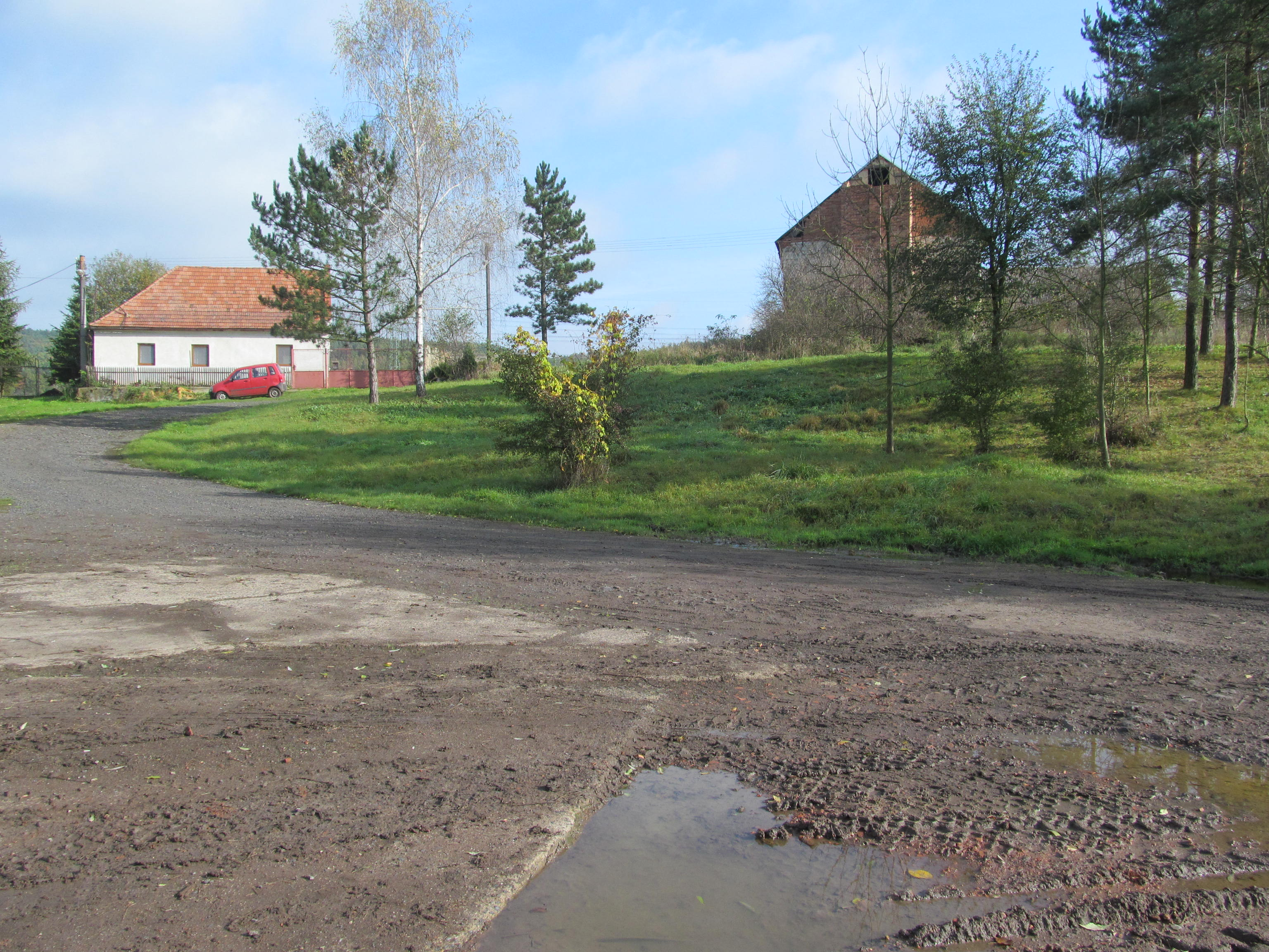 Village square in Neprobylice